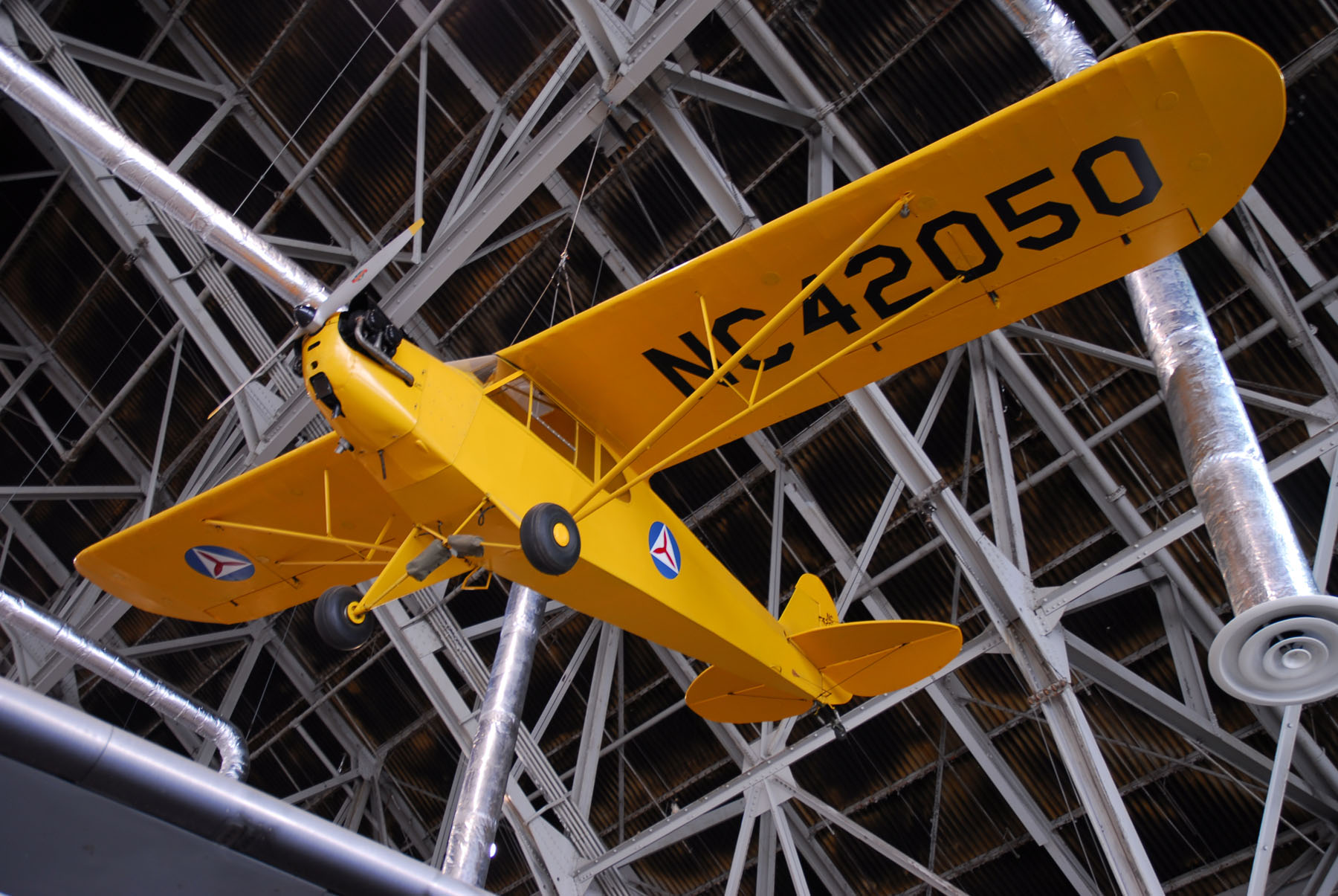 This Piper J-3 represents the contributions of the Civil Air Patrol (CAP) to the U.S. Air Force. The J-3 on display is further identified as a J-3C-65-8 indicating it is a J-3 aircraft powered by a Model 8 Continental A-65 engine of 65 horsepower. It is painted in the widely known Piper "Cub yellow". The aircraft on display was donated in 1971 by the Greene County Composite Squadron, Civil Air Patrol, of Xenia, Ohio.